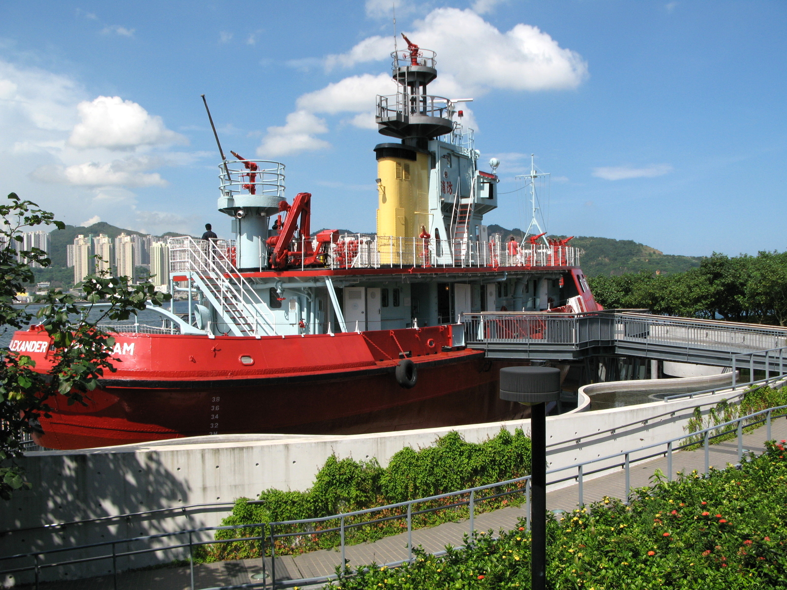 The Fireboat Alexander Grantham 葛量洪號滅火輪展覽館